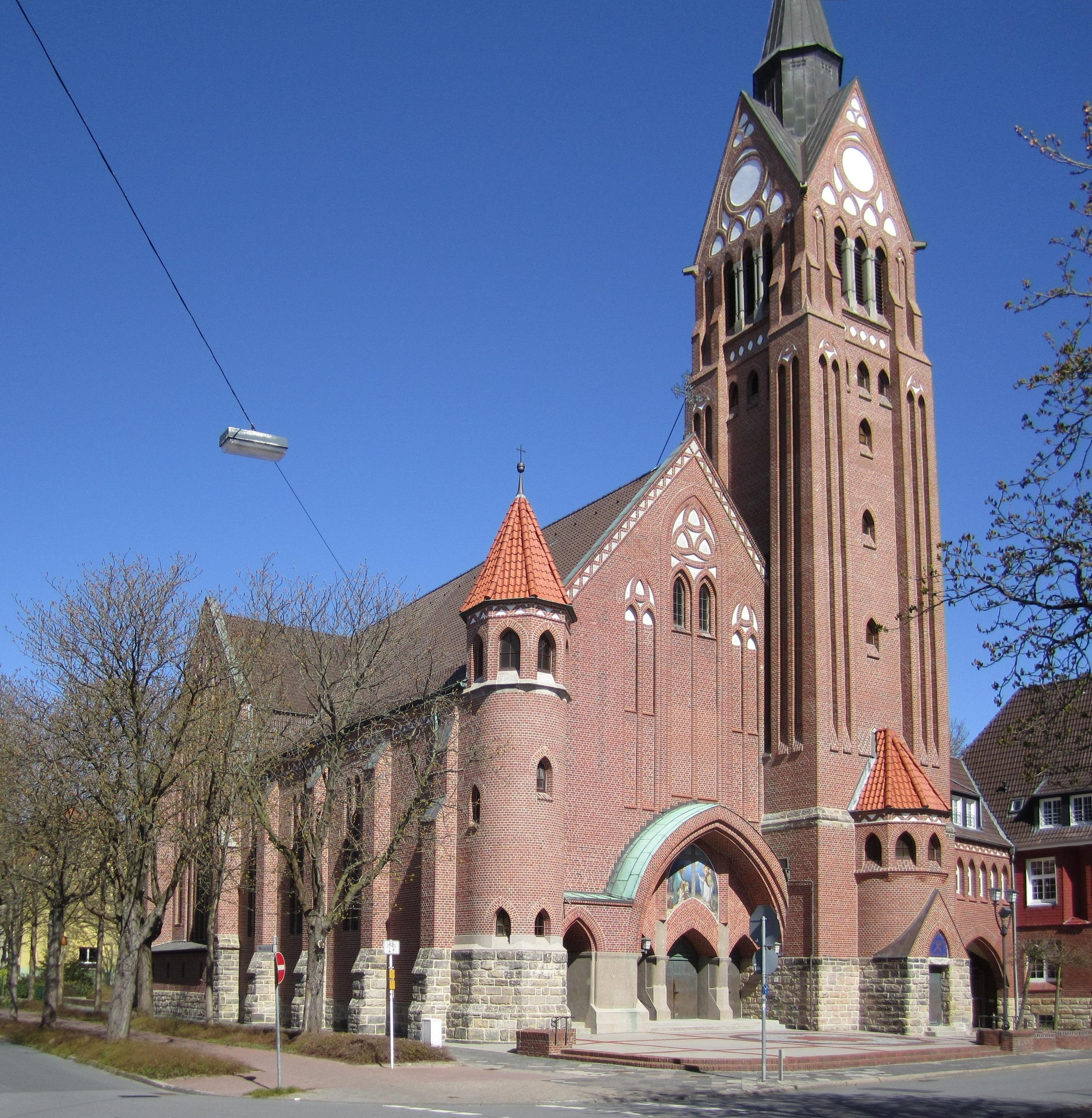 St. Willehad church in Wilhelmshaven, Germany.